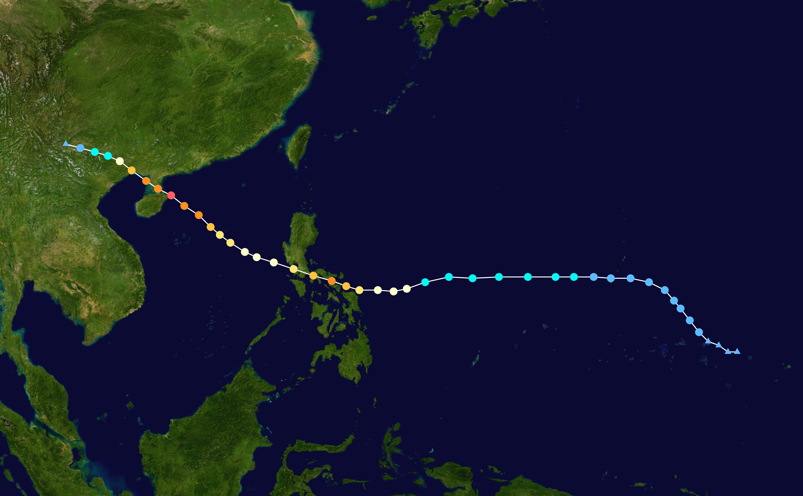 Track map of Typhoon Rammasun of the 2014 Pacific typhoon season. The points show the location of the storm at 6-hour intervals. The colour represents the storm's maximum sustained wind speeds as classified in the Saffir–Simpson scale (see below), and the shape of the data points represent the nature of the storm, according to the legend below. Saffir–Simpson scale Tropical depression≤38 mph≤62 km/h Category 3111–129 mph178–208 km/h Tropical storm39–73 mph63–118 km/h Category 4130–156 mph209–251 km/h Category 174–95 mph119–153 km/h Category 5≥157 mph≥252 km/h Category 296–110 mph154–177 km/h Unknown Storm type Tropical cyclone Subtropical cyclone Extratropical cyclone / Remnant low / Tropical disturbance / Monsoon depression